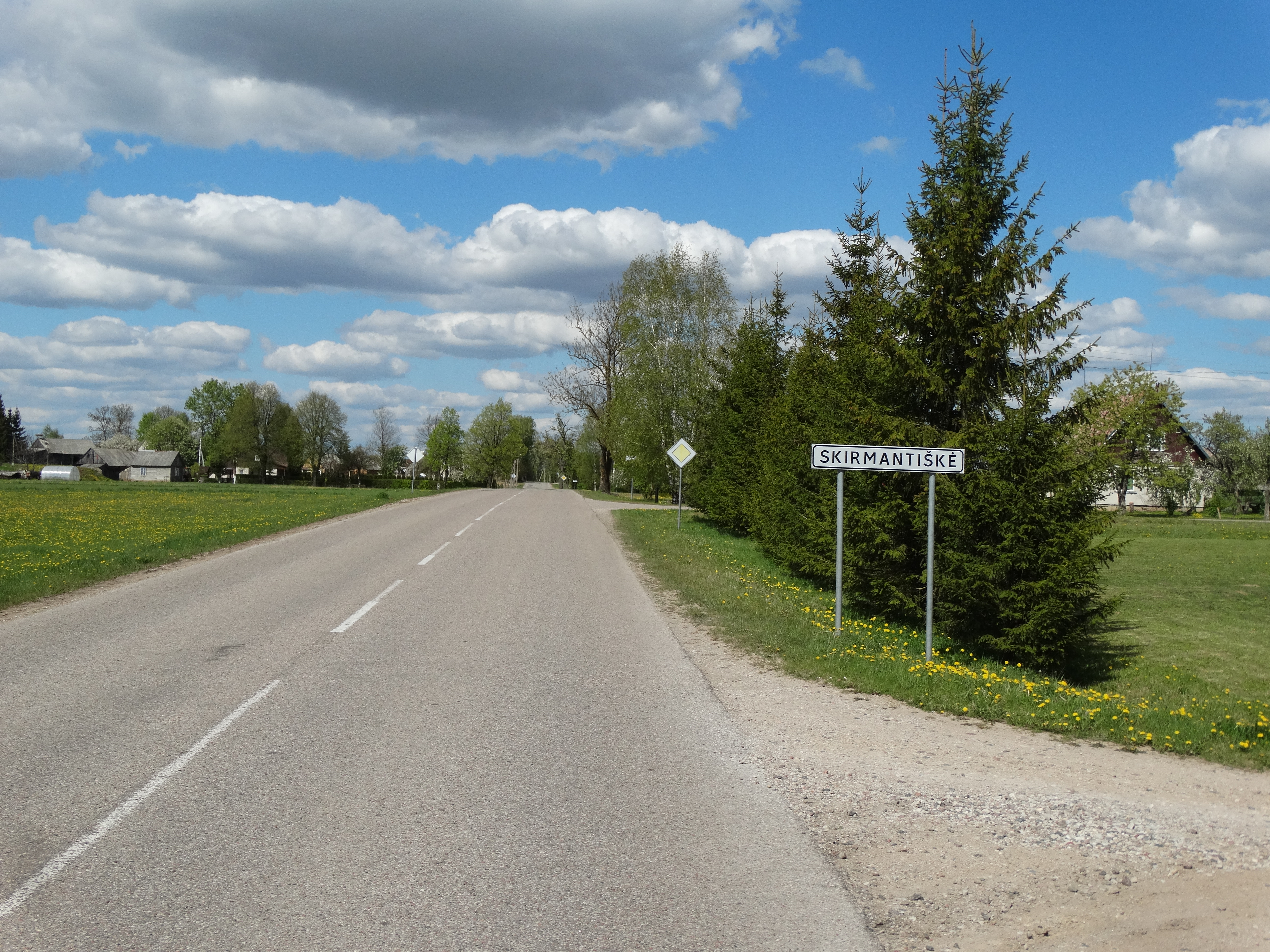 Skirmantiškė, Raseiniai District, Lithuania